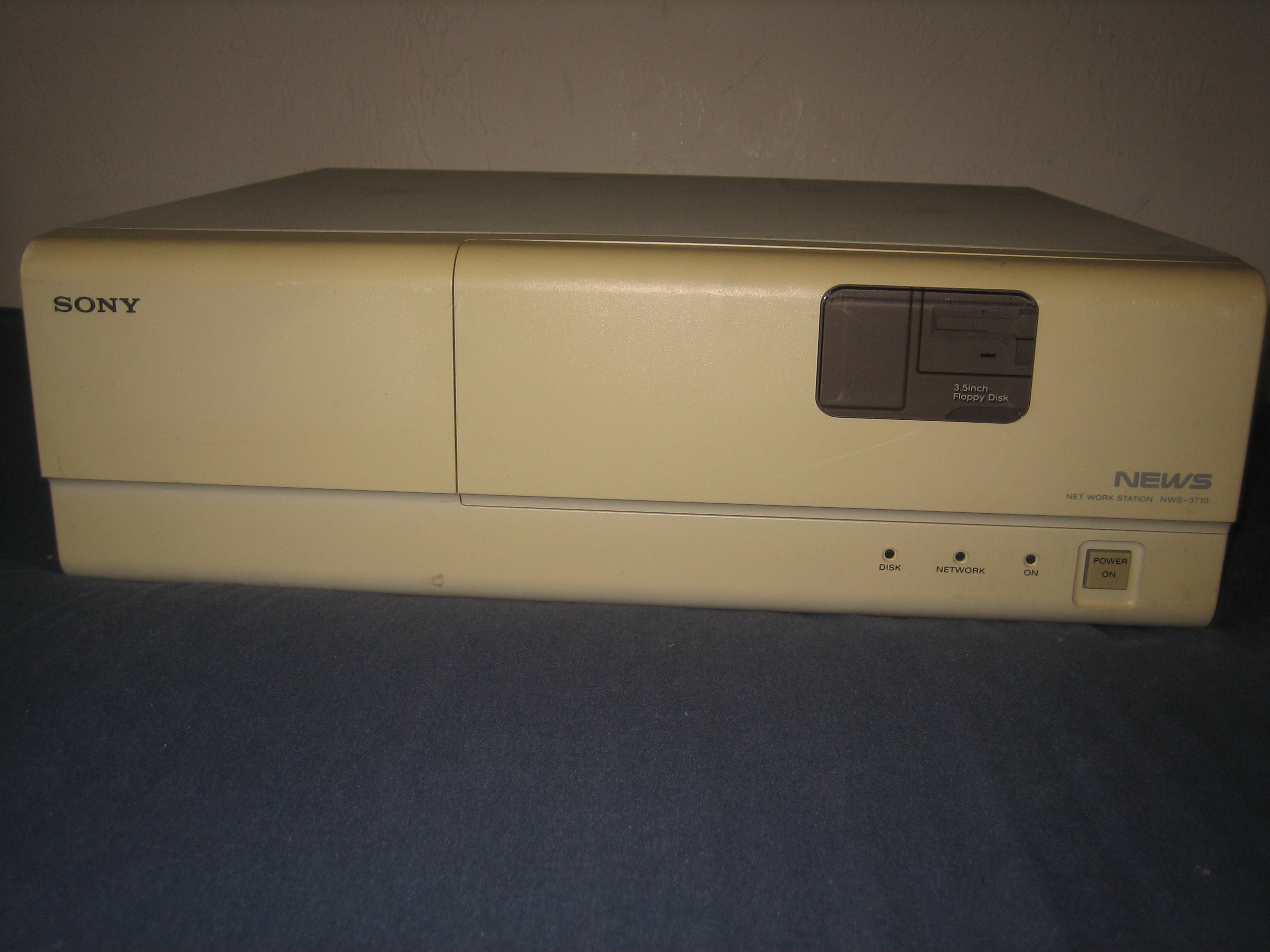 Front view of a Sony NWS-3710 RISC workstation, which originally ran Sony's NeWS operating system.